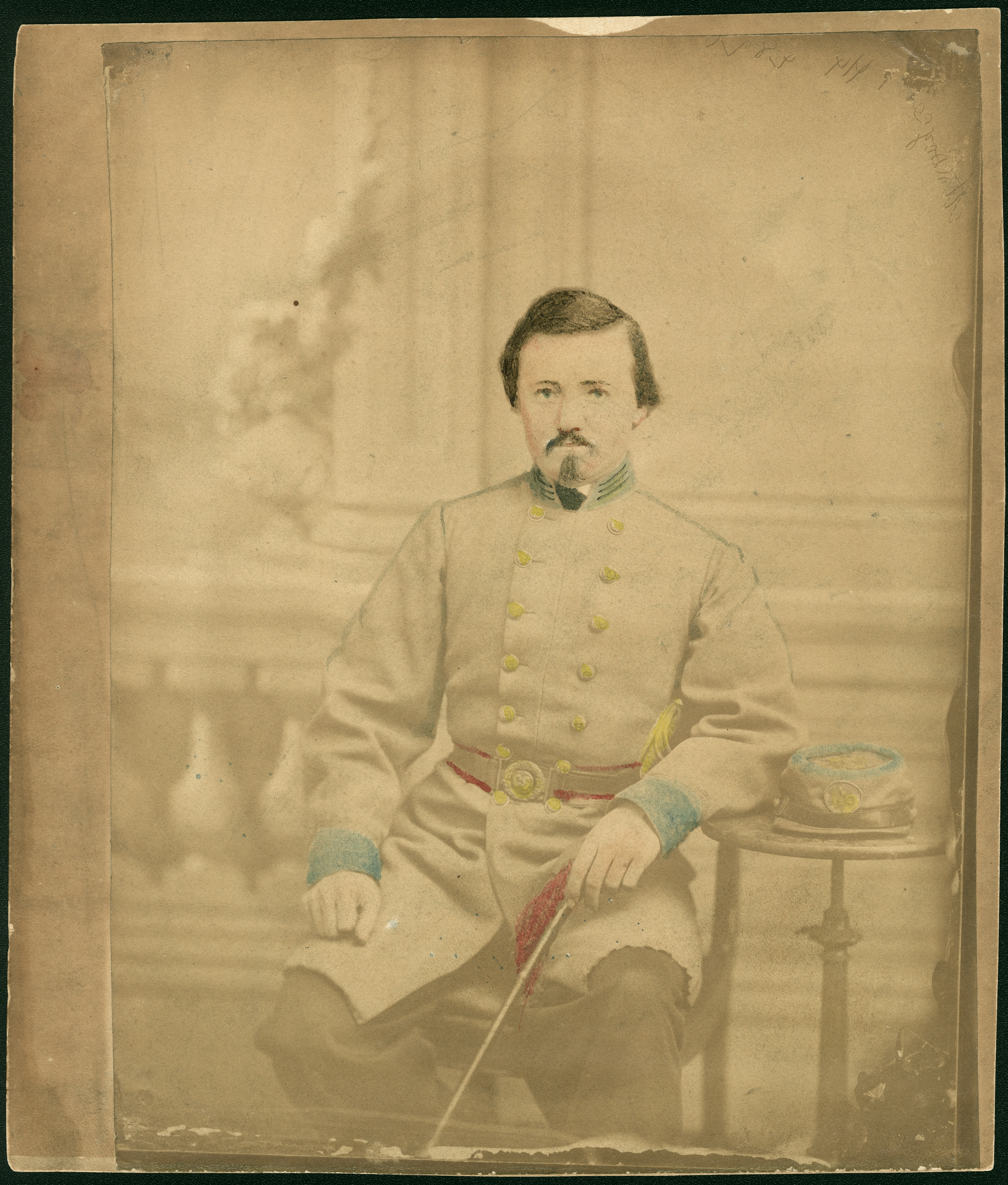 Title: Joseph Boyce in Confederate uniform of the St. Louis Grays, 1st Missouri Infantry.